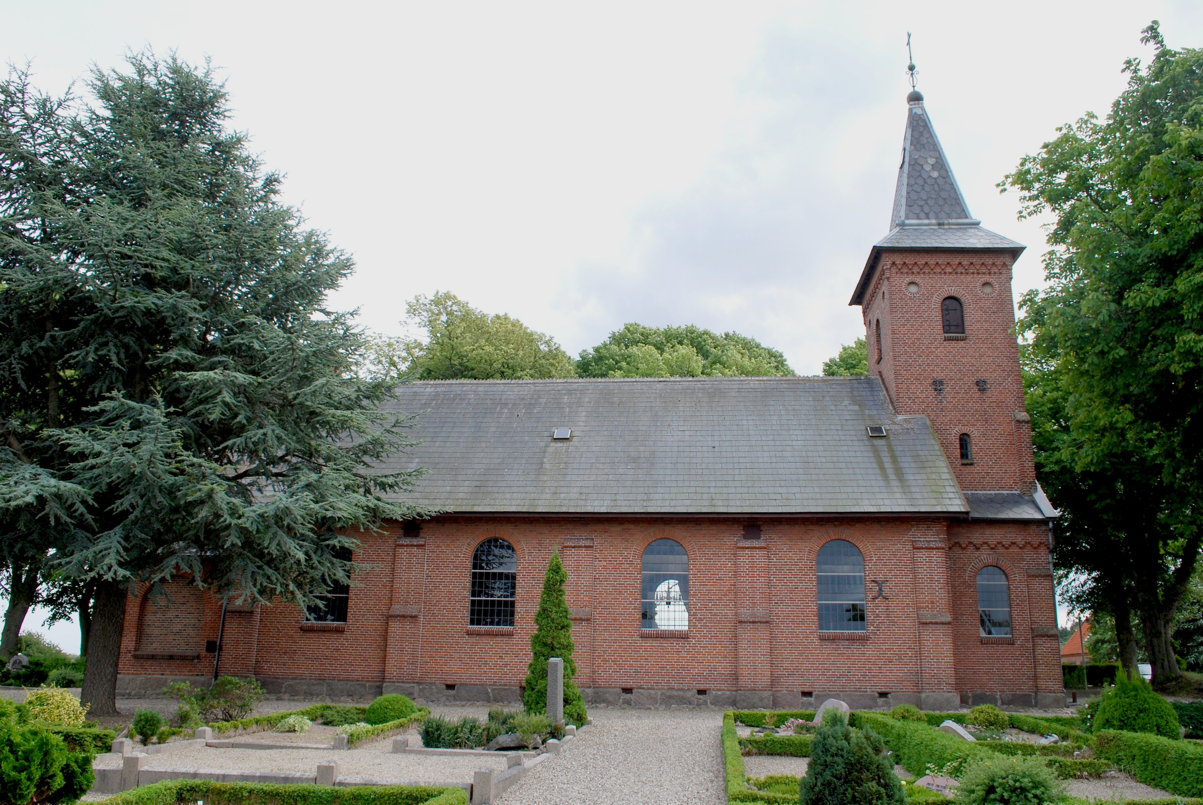 Church of Hou, Langeland, Denmark